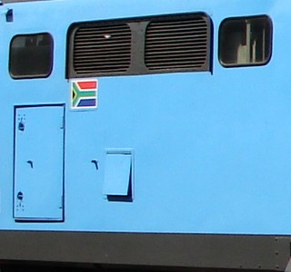 Hatch door on left side of Class 6E1 Series 8 no. E1950Location: Beaufort West, Western Cape